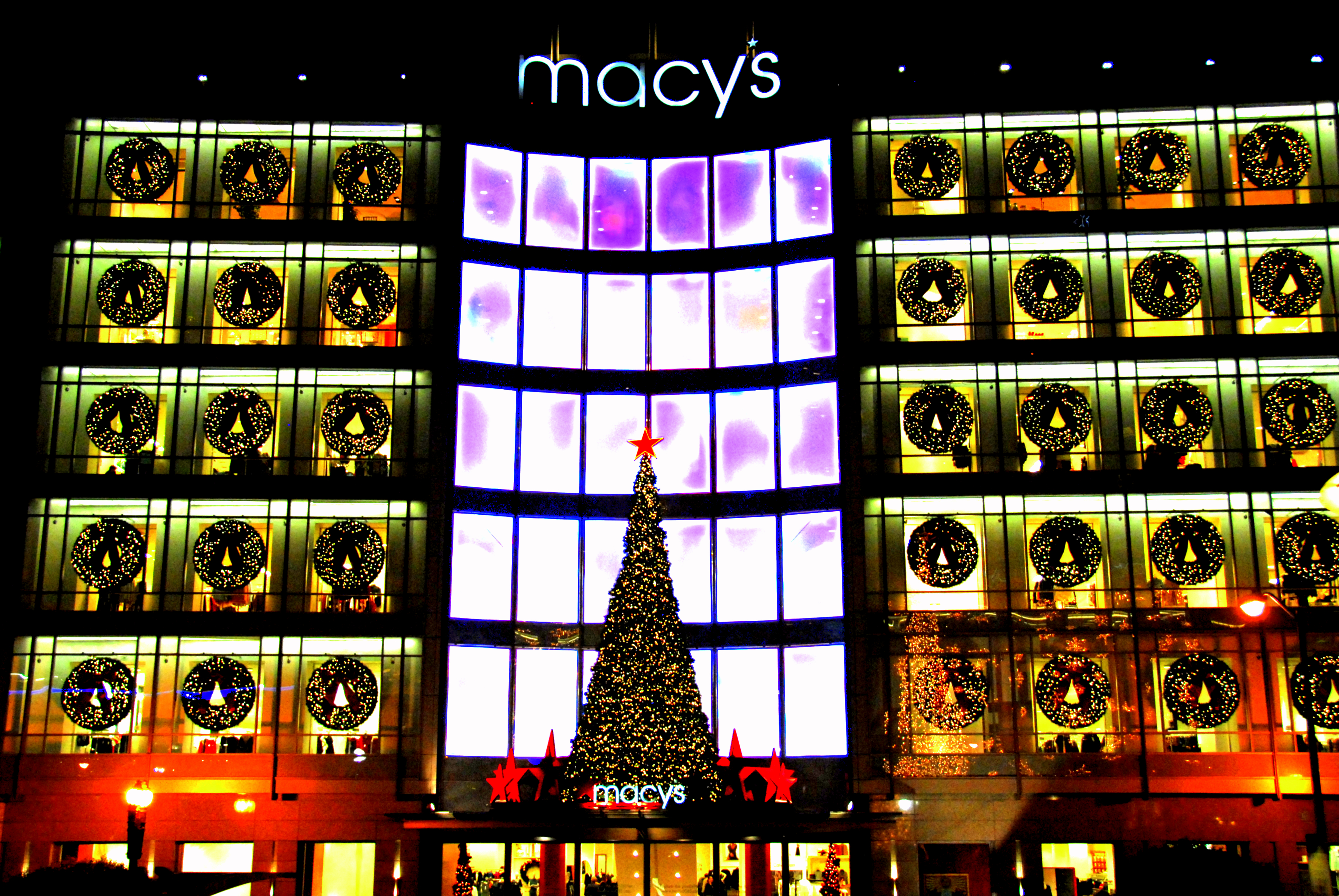 Macy's store during 2006 Christimas in San Francisco, CA